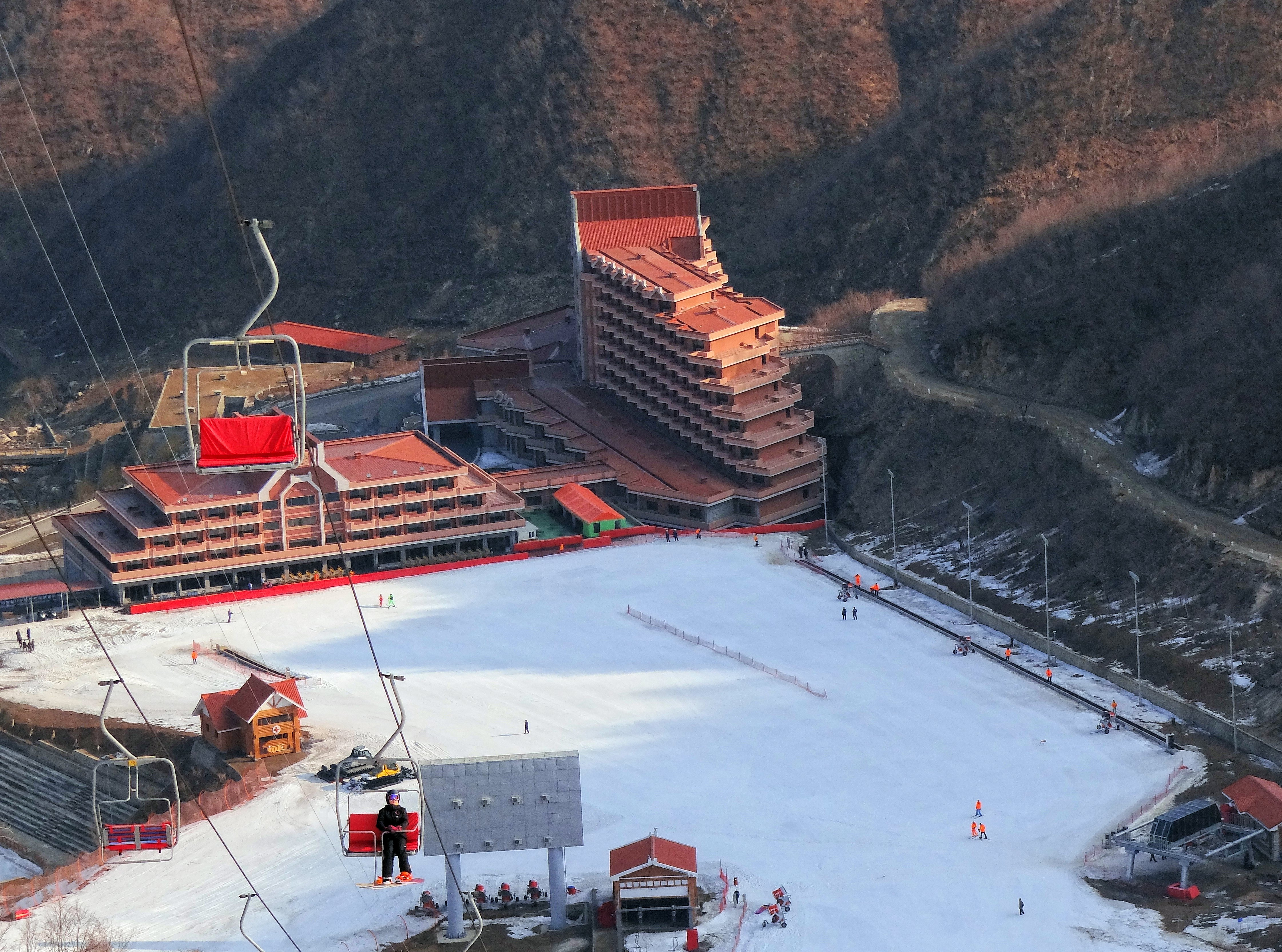 The hotel and base station at the Masikryong Ski Resort. A large video screen is located next to the ski lift's starting point.